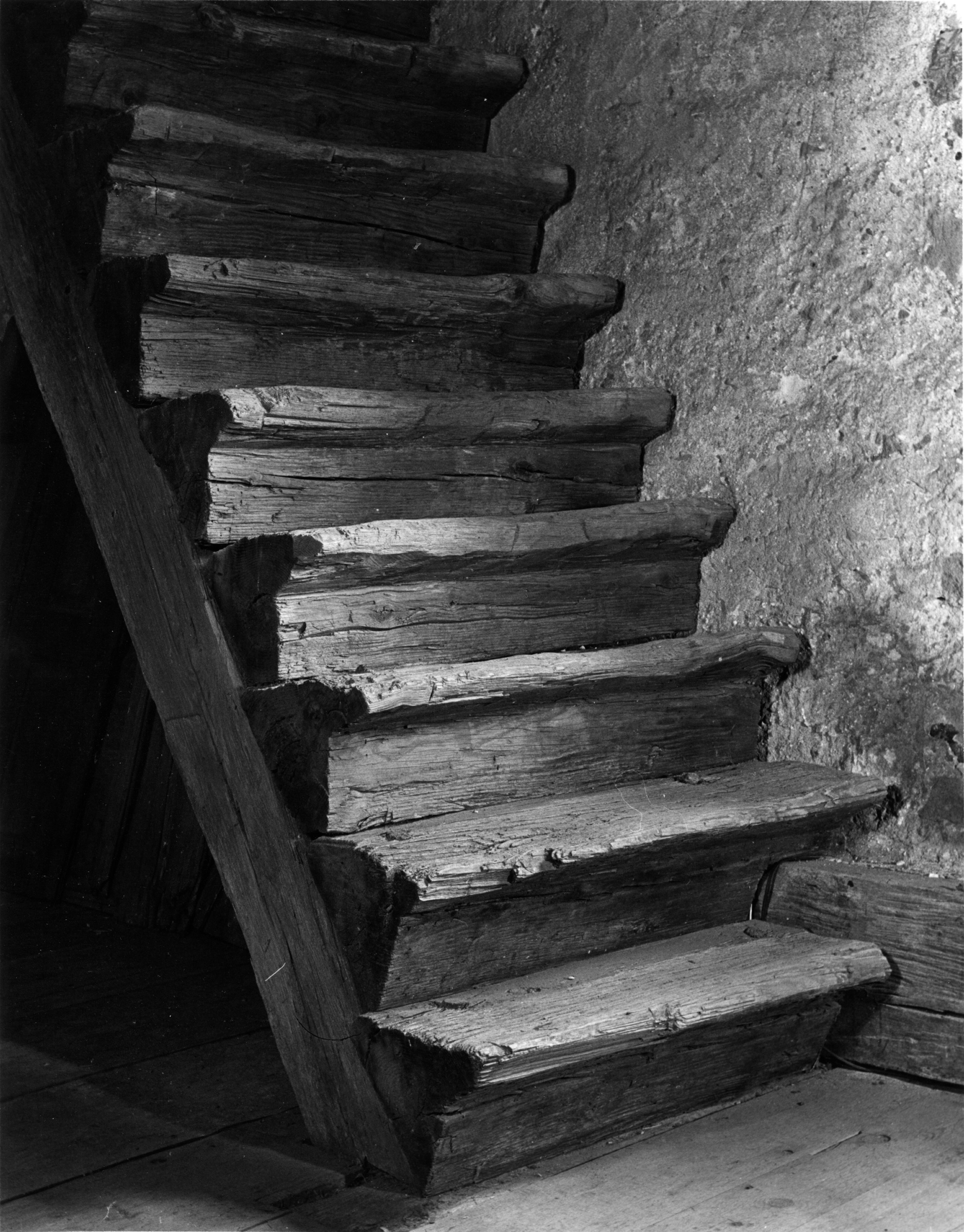 Shows the steps going from the first two the second attic in the Herr House. This style of step is found is old Swiss and south-German architecture; this is the only extant example in America.